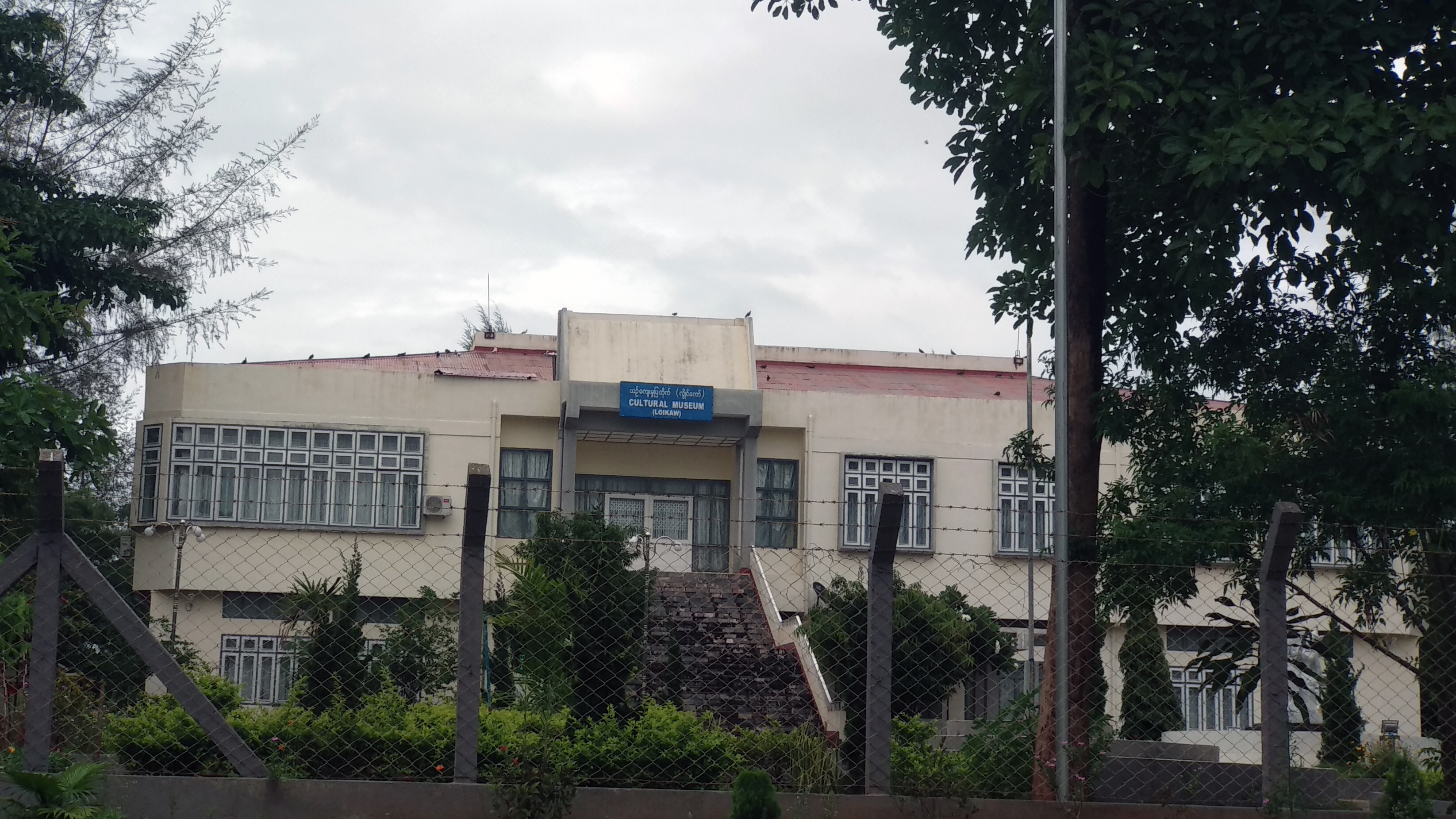 Cultural Museum (Loikaw, Kayah State, Myanmar) မြန်မာဘာသာ: ယဉ်ကျေးမှုပြတိုက် (လွိုင်ကော်)